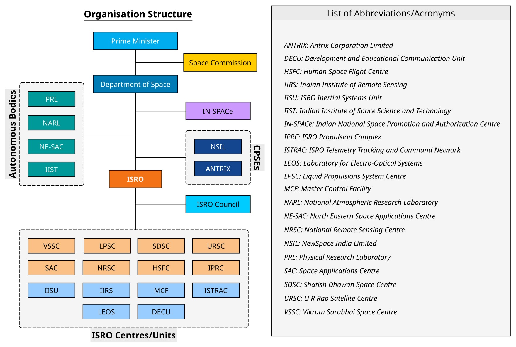 Organization chart showing structure of the Department of Space of the Government of India.